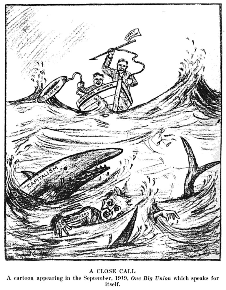 cartoon from September, 1919 periodical One Big Union, published in Revolutionary Radicalism